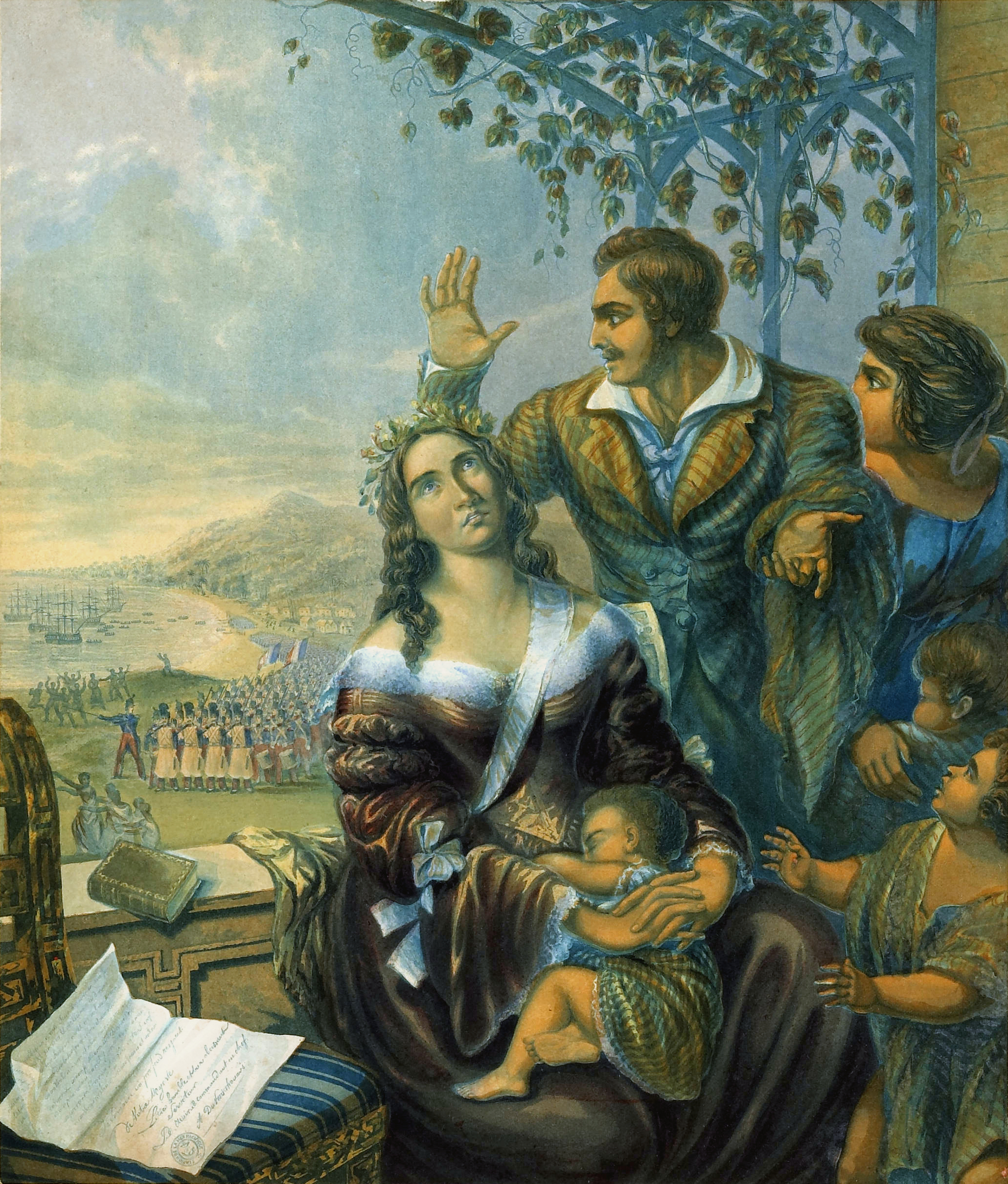 Pomare, Queen of Tahiti, the persecuted Christian surrounded by her family at the afflictive moment when the French forces were landing [picture]. The picture shows Queen Pomare, her husband, her three sons Ariʻiaue, Teratane and Tamatoa, and a servant girl